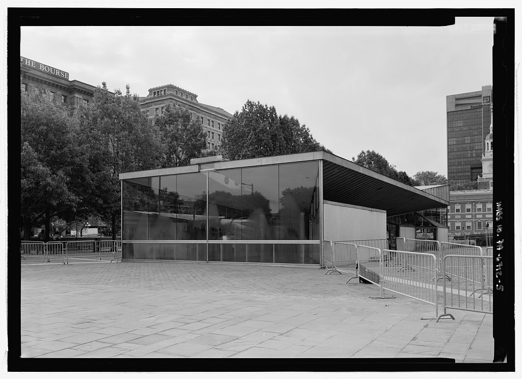 Liberty Bell Pavilion (completed 1975), Independence National Historical Park, Philadelphia, Pennsylvania, Romaldo Giurgola, architect.